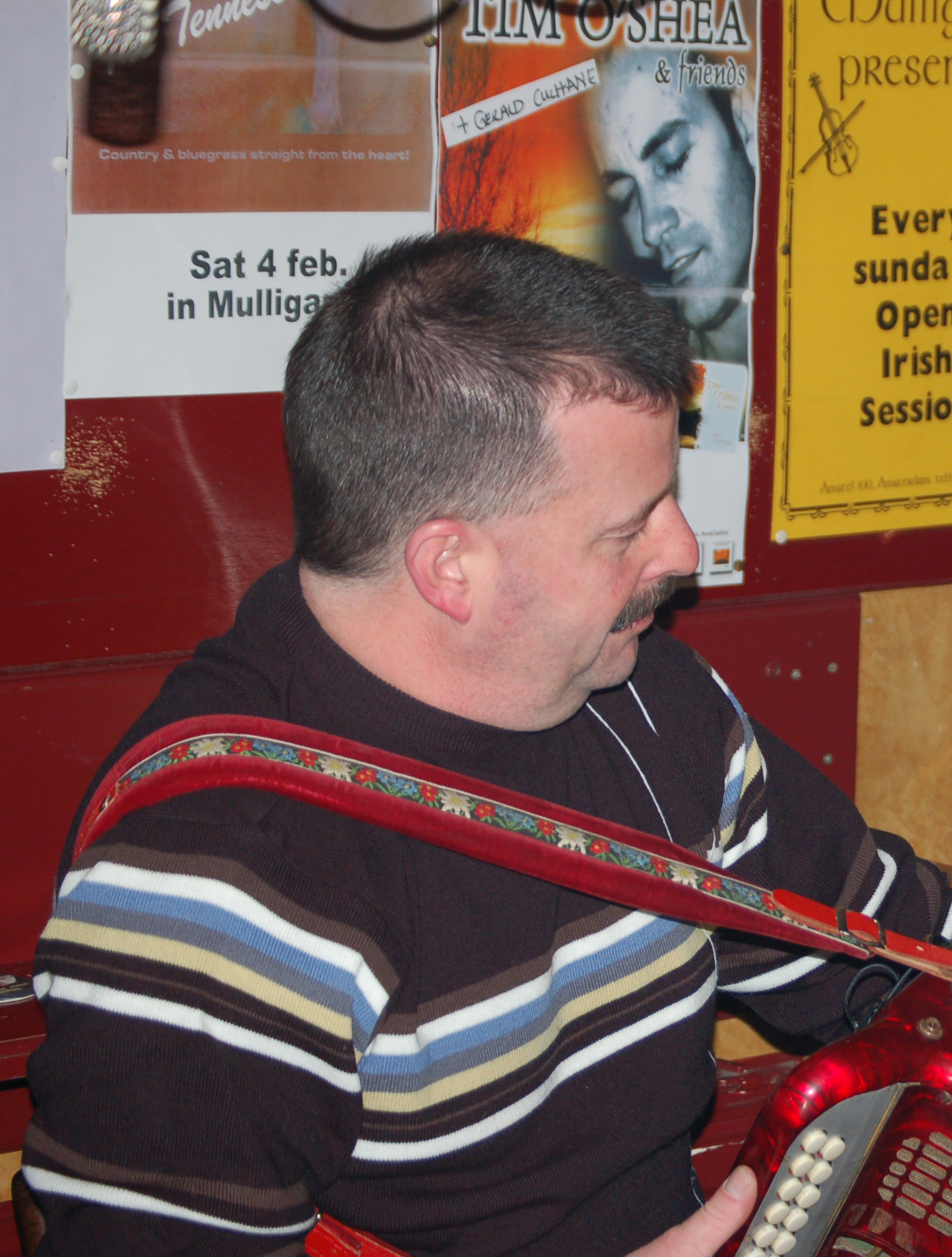 Irish musician Ailbe Grace playing in a session in Amsterdam on 21 January 2006